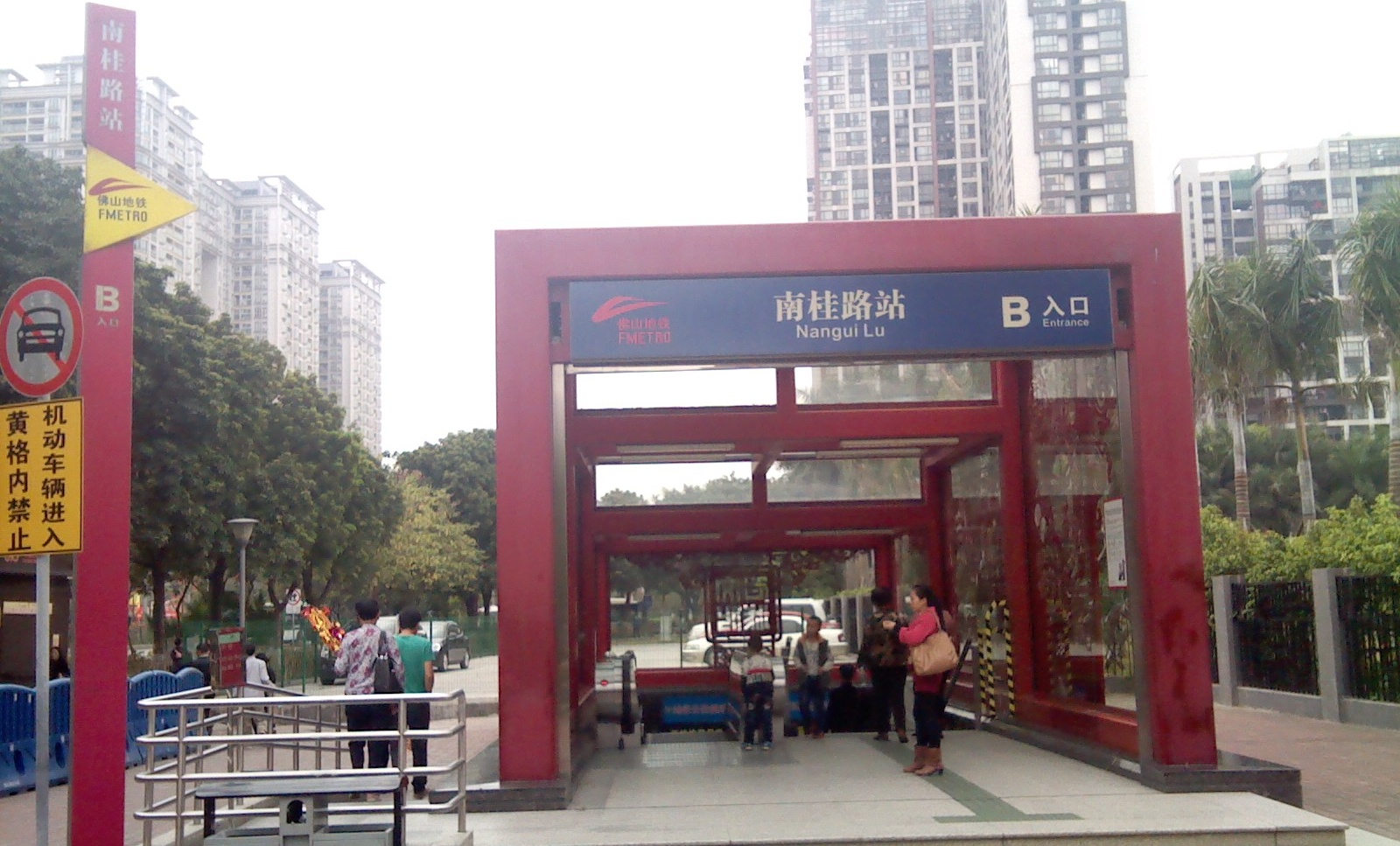 南桂路站B出入口